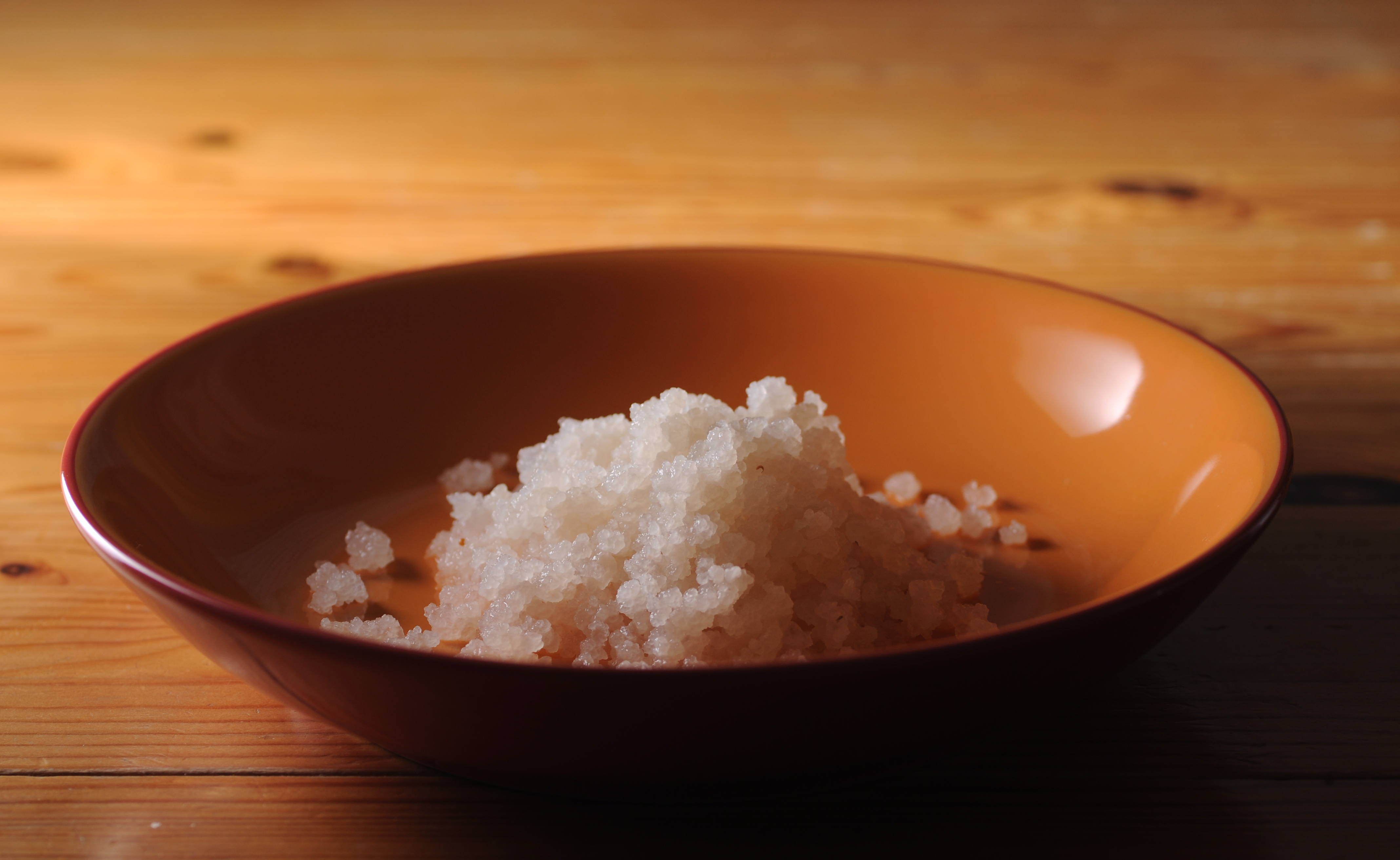 Water kefir crystals (also known as Tibicos). They feel like rubber, but can be squashed. After some time without nourishment they become opaque (white), but after adding some sugar they become slightly translucent again, as seen on this image.